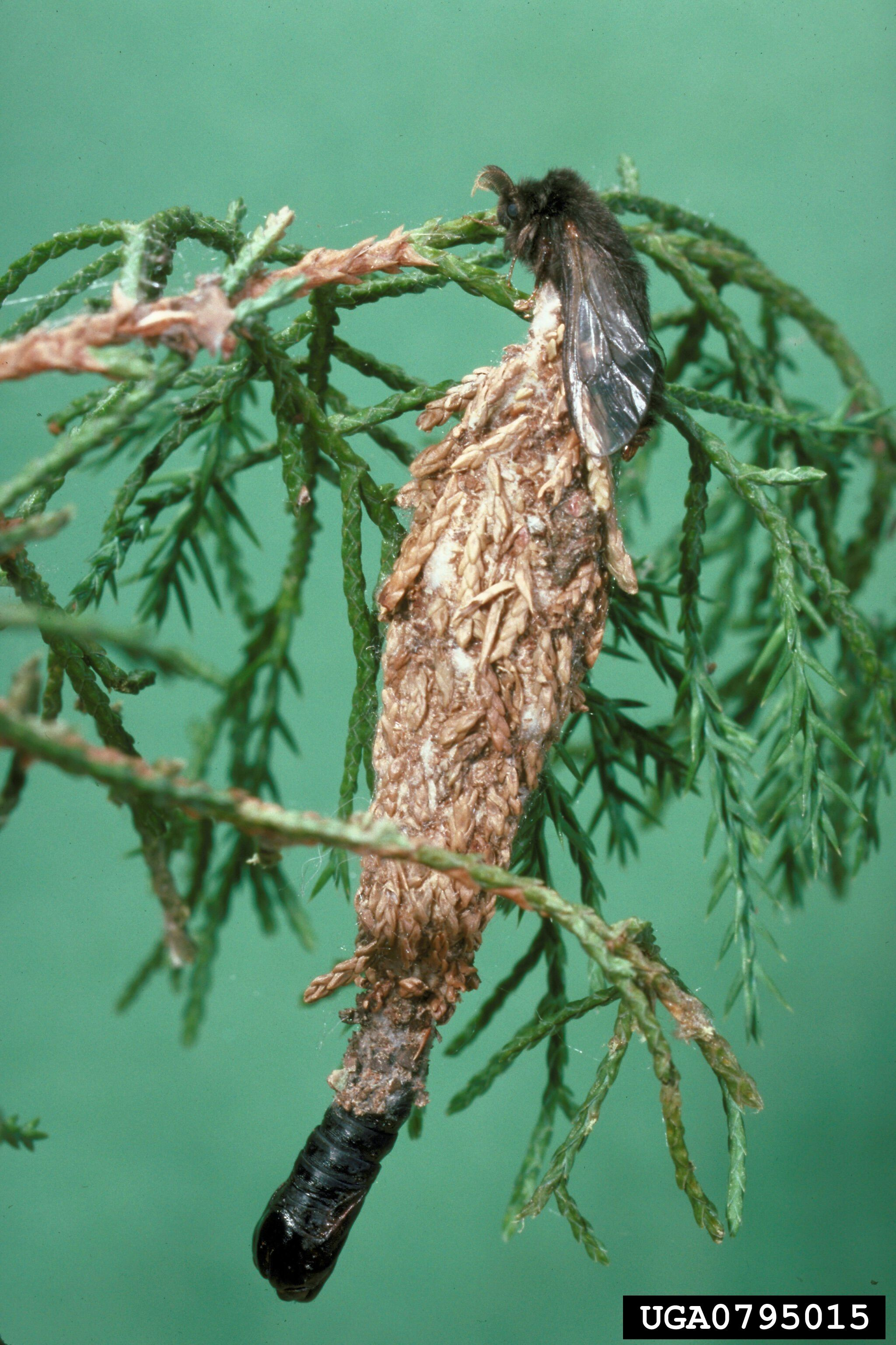 Thyridopteryx ephemeraeformis male adult, bag, and pupal case.